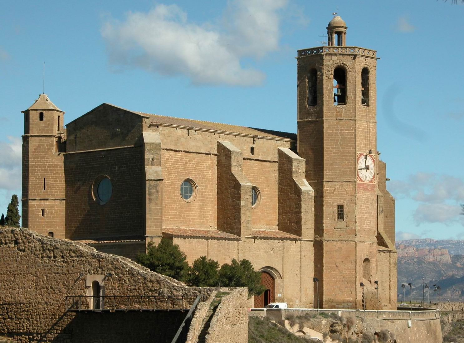 Church of Santa Maria, Balaguer, Catalonia, Spain